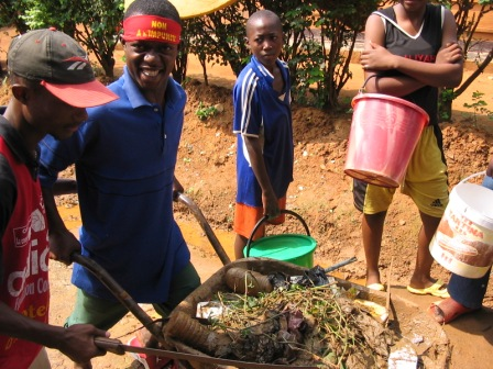 Children cart dirt and debris away during a community clean-up day in Anguissa, Yaoundé, Cameroon, sponsored by the U.S. Embassy, 17 December 2005.